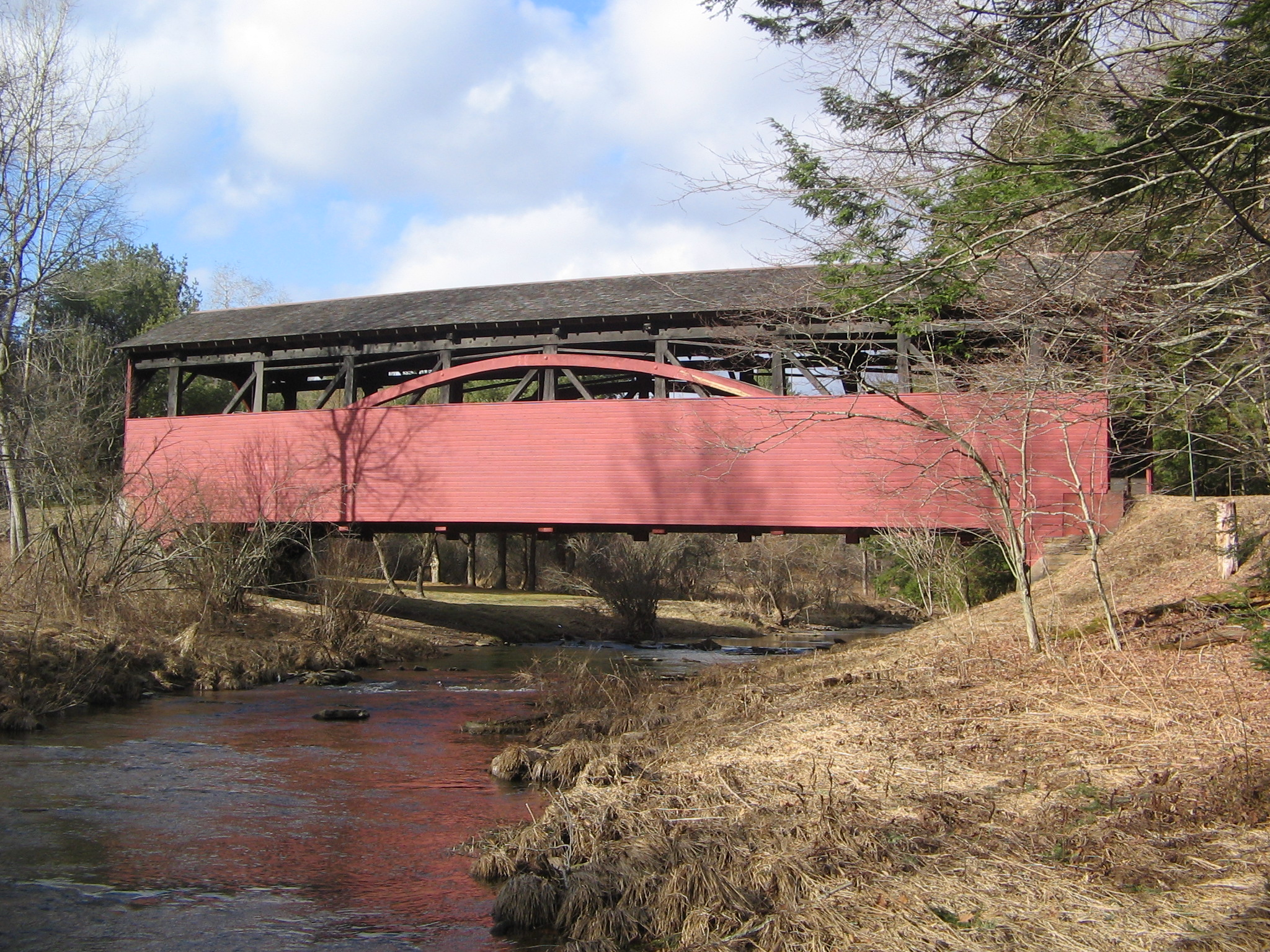 Larrys Creek Covered Bridge (also known as Cogan House Covered Bridge and Buckhorn Covered Bridge) over Larrys Creek in Cogan House Township, Pennsylvania, USA. Bridge built 1877, rehabilitated 1998. On the US National Register of Historic Places. A Burr arch truss bridge.